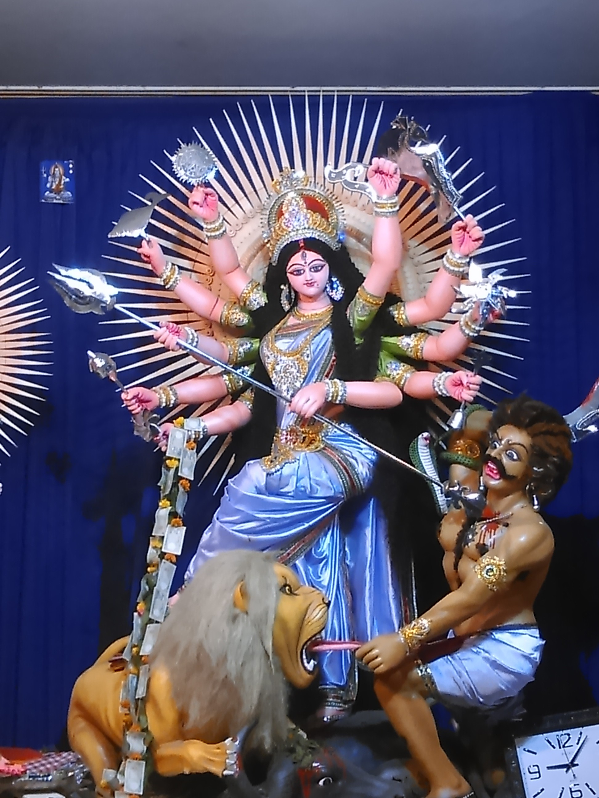 Goddess Durga, from a temple of Dhaka, Bangladesh